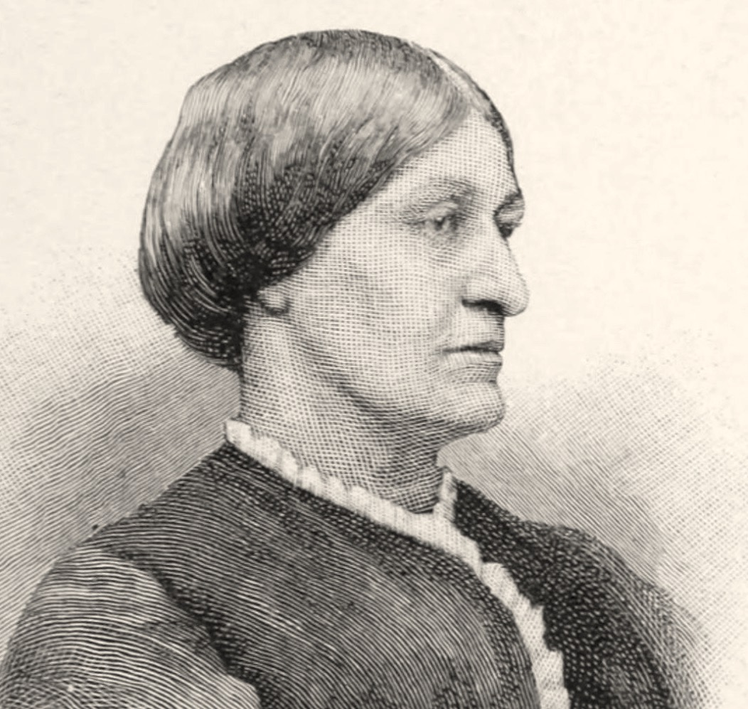 Mrs. James W. Wallack Jr. (widow of William Sefton) nee Ann Duff Waring (see pp. 615–16)